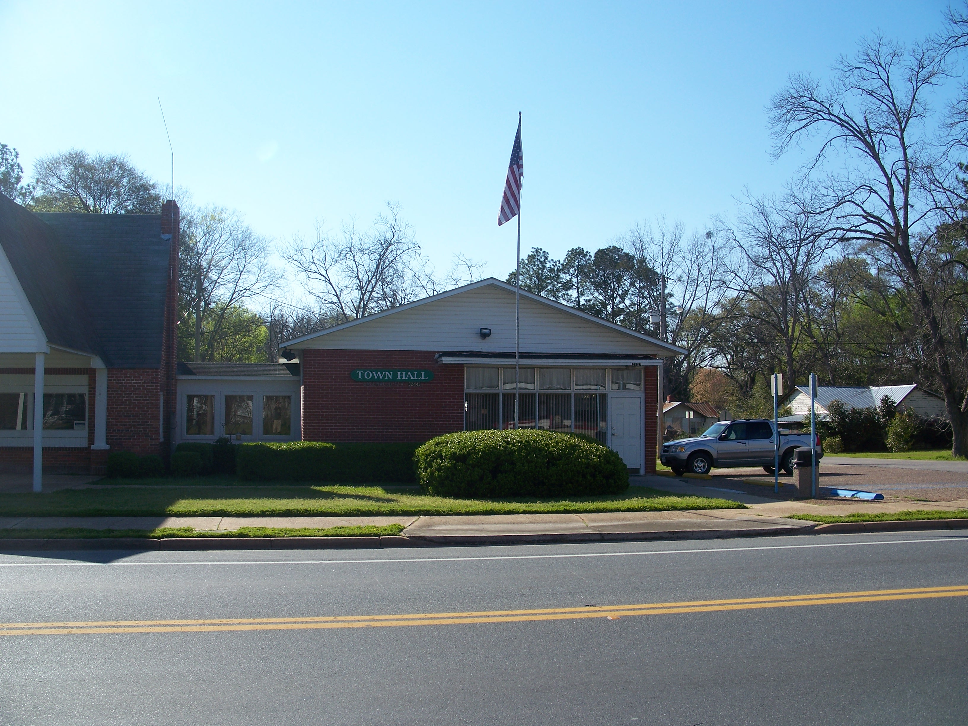 The Greenwood town hall.